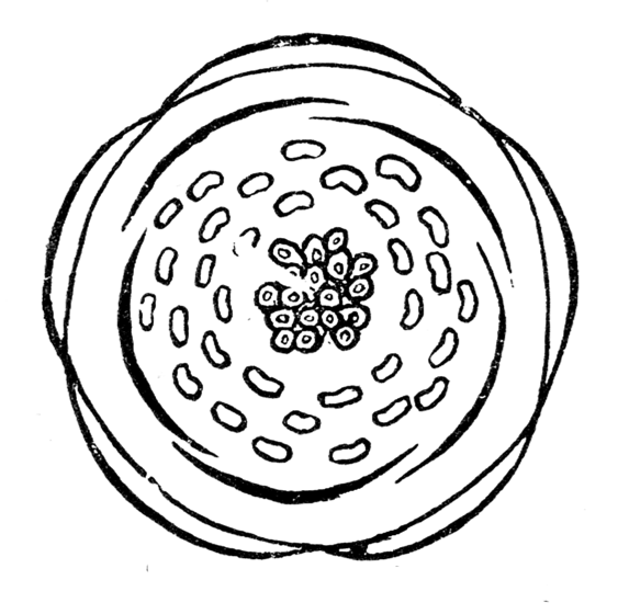 Diagram of a flower of Rubus fruticosus (Rosaceae)